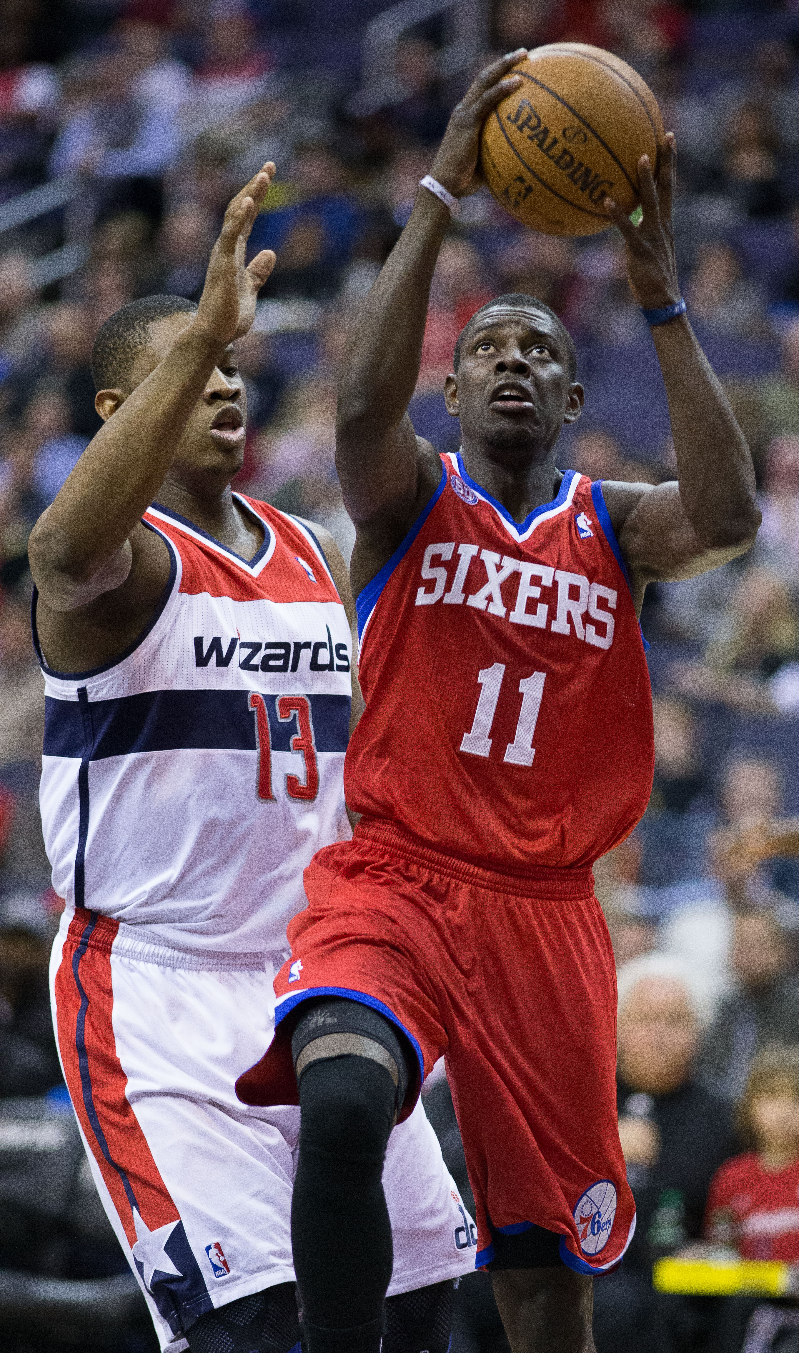 Philadelphia 76ers at Washington Wizards March 3, 2013